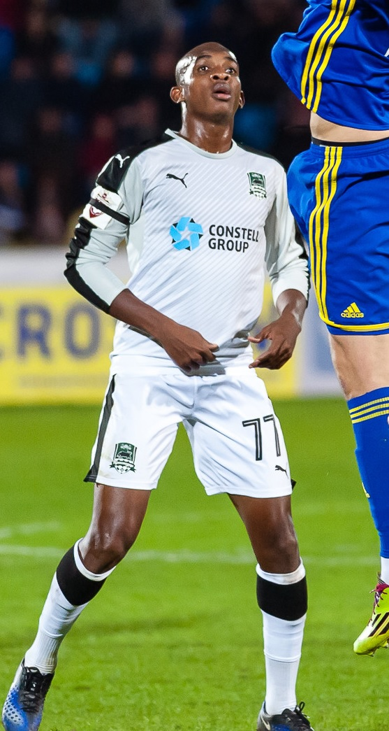 Charles Kaboré with FC Krasnodar in a game against FC Rostov.